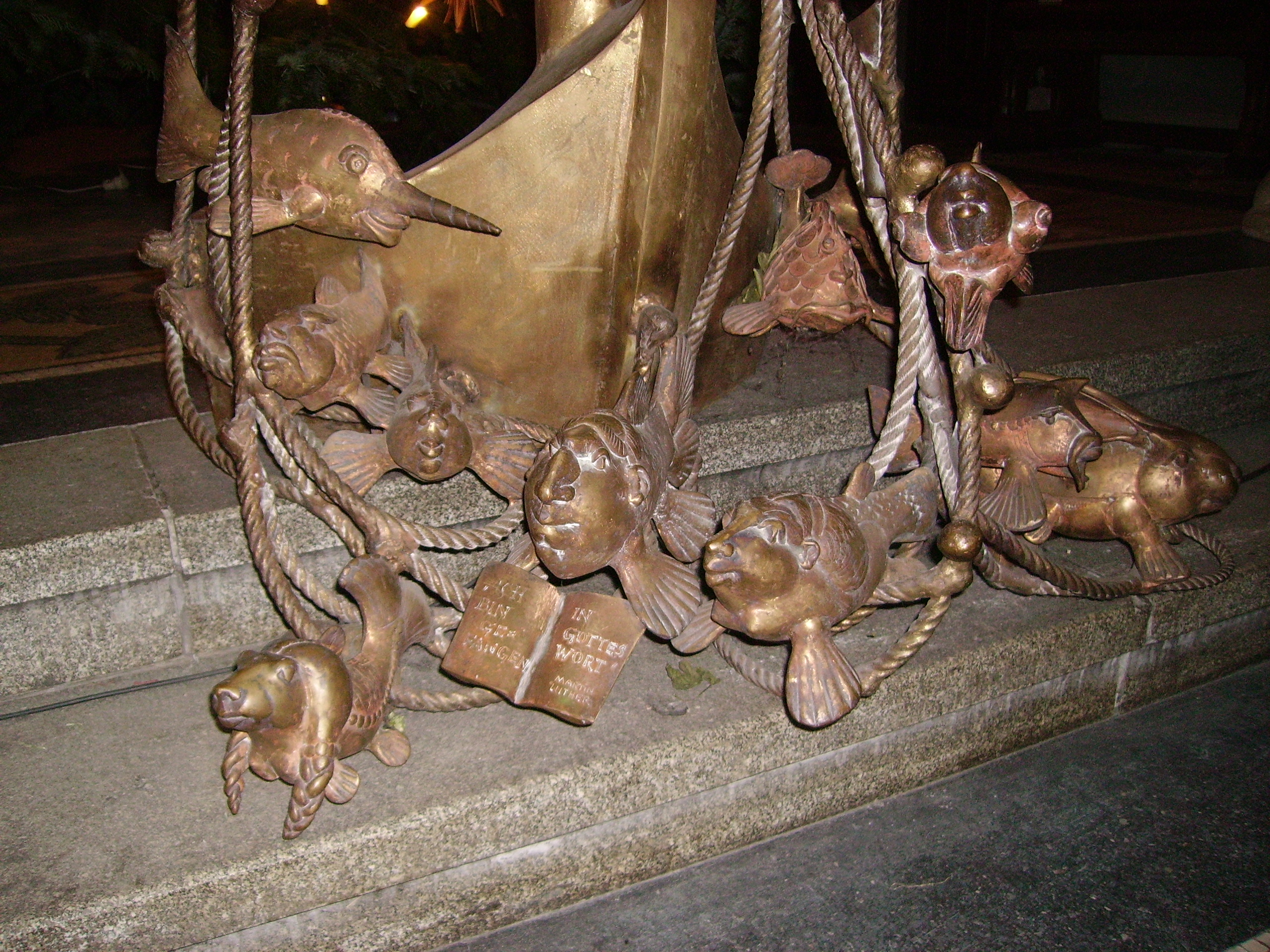 Gedächtniskirche (Memorial Church) in Speyer, Germany